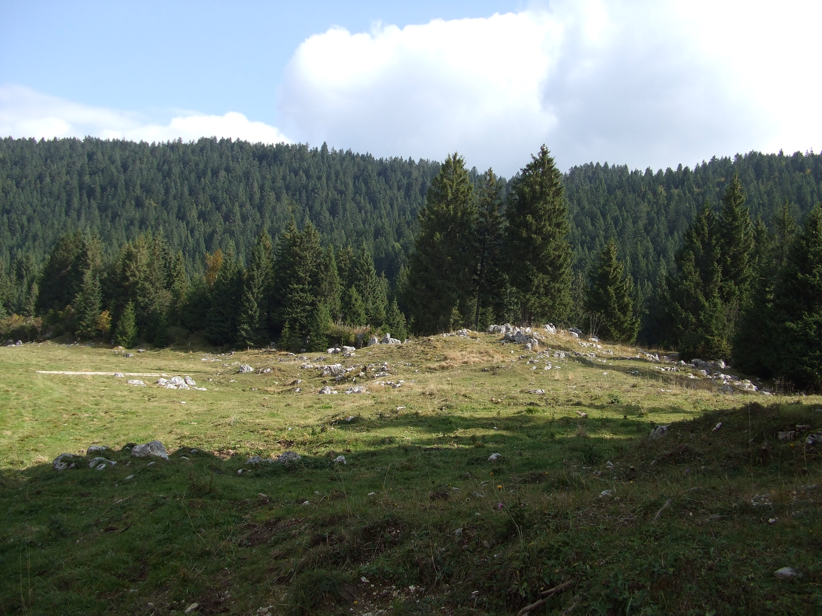 The black wood of Granezza (Veneto, Northern Italy)